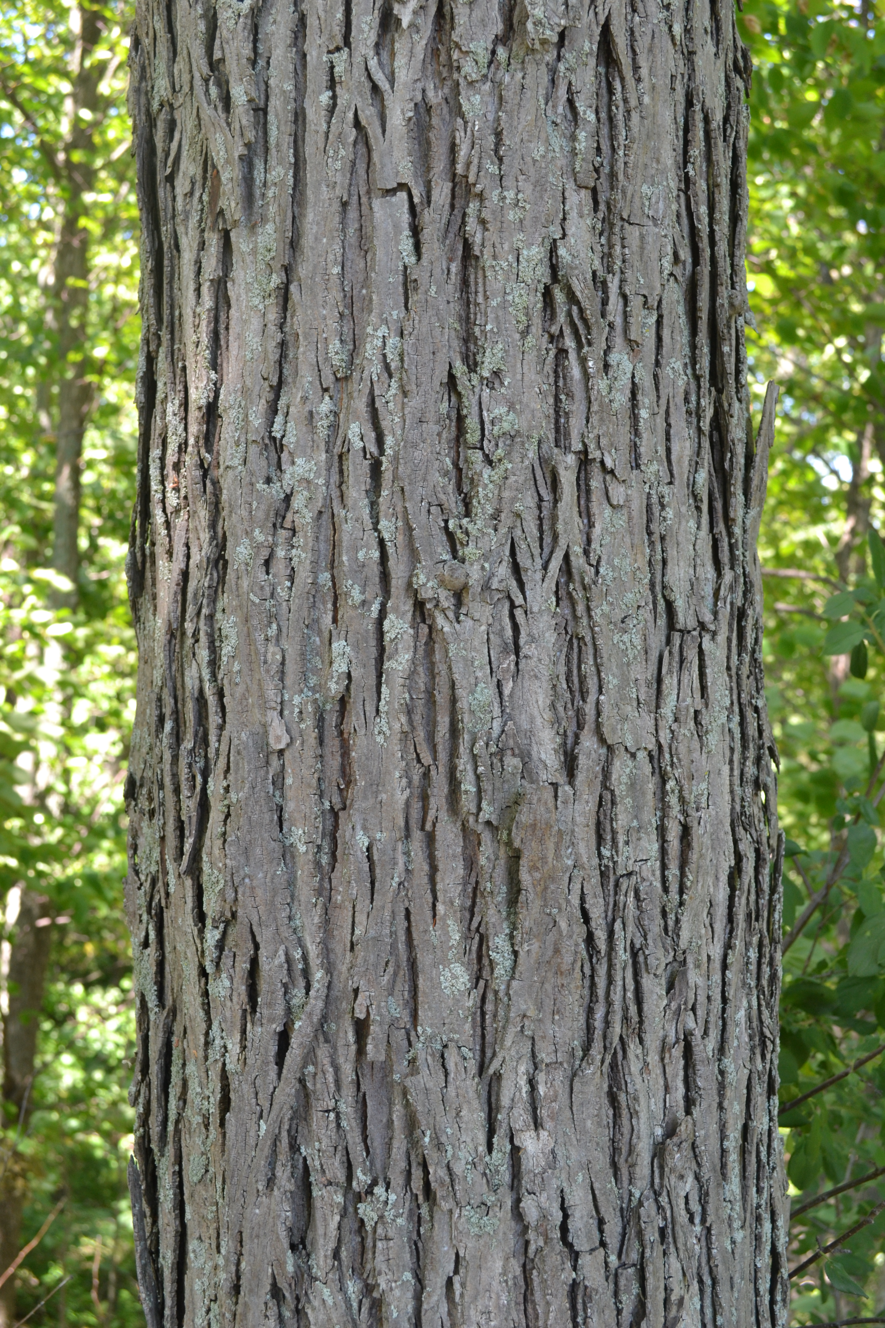 The bark of a mature Red Hickory tree.